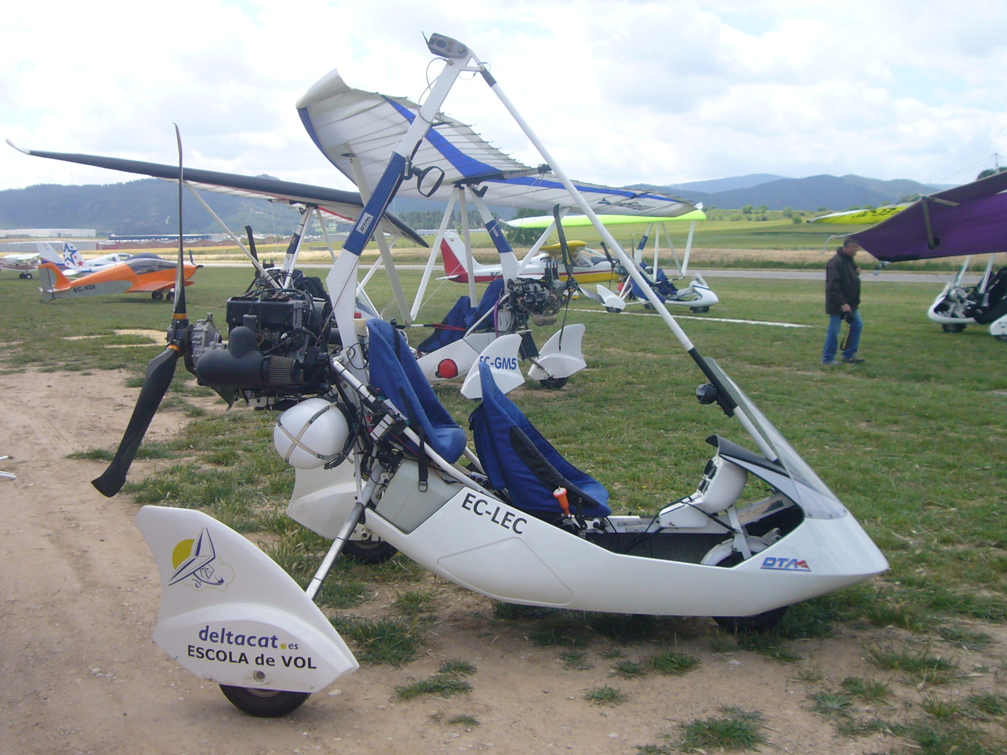 Aerosport 2013 (Igualada)